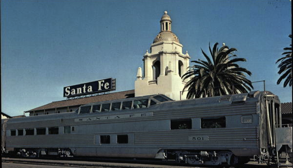 ATSF #501, one of the new "Pleasure Domes" built by Pullman-Standard, in San Diego before entering regular service on the Super Chief.